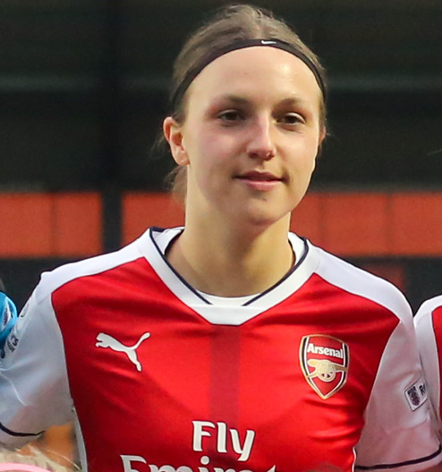 Arsenal LFC v Liverpool LFC, 4 May 2017